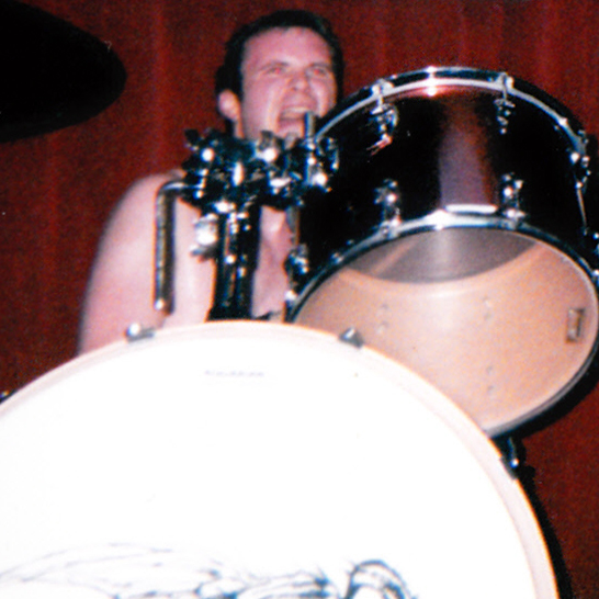 William Goldsmith performing live in June 2000